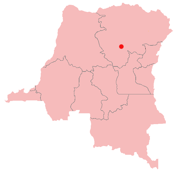 Locator map of Kisangani (city) — on the Congo River in the Democratic Republic of the Congo. Location Map; created with the GIMP. Made by User:Acntx.